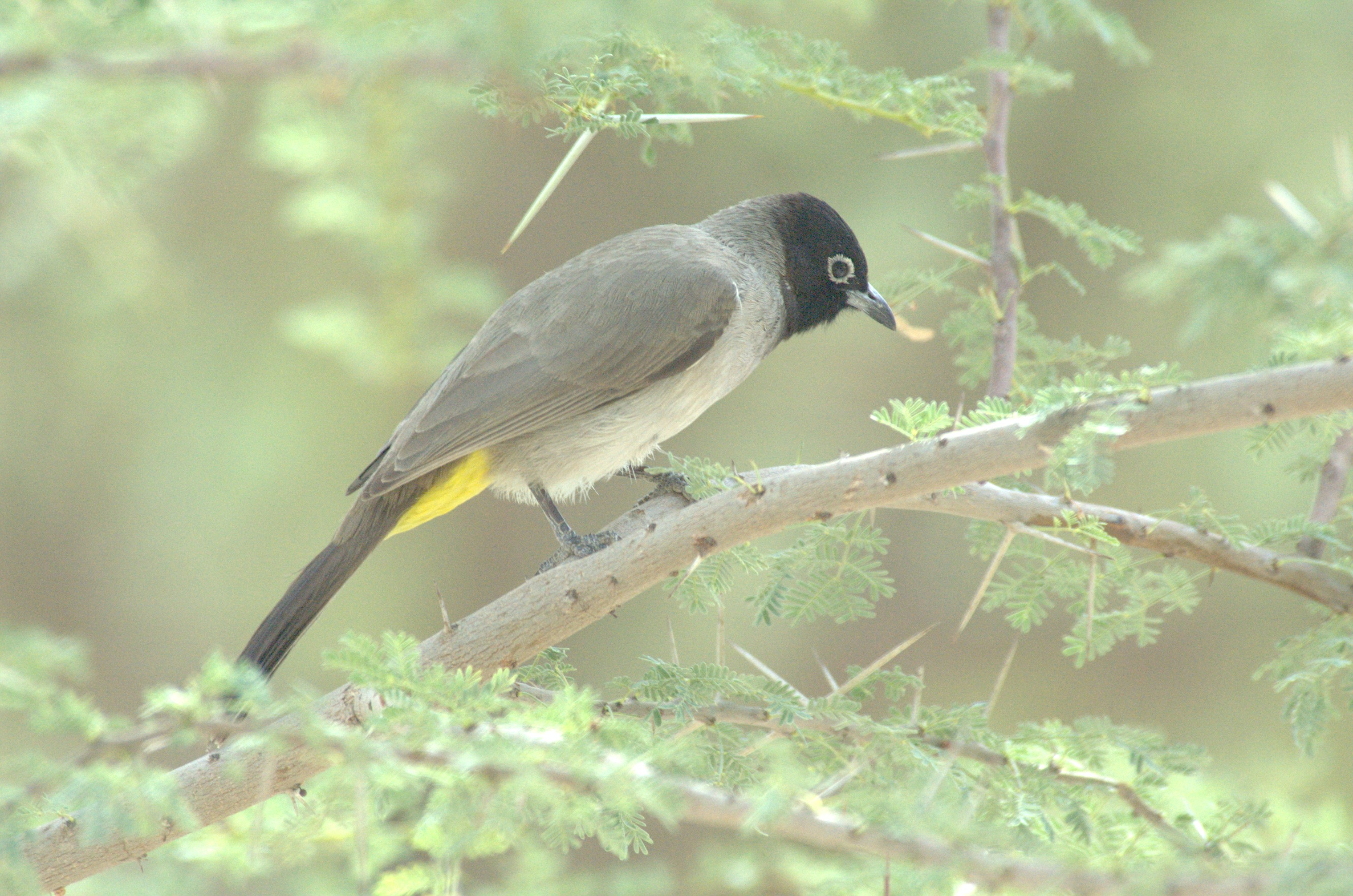 Pycnonotus xanthopygos